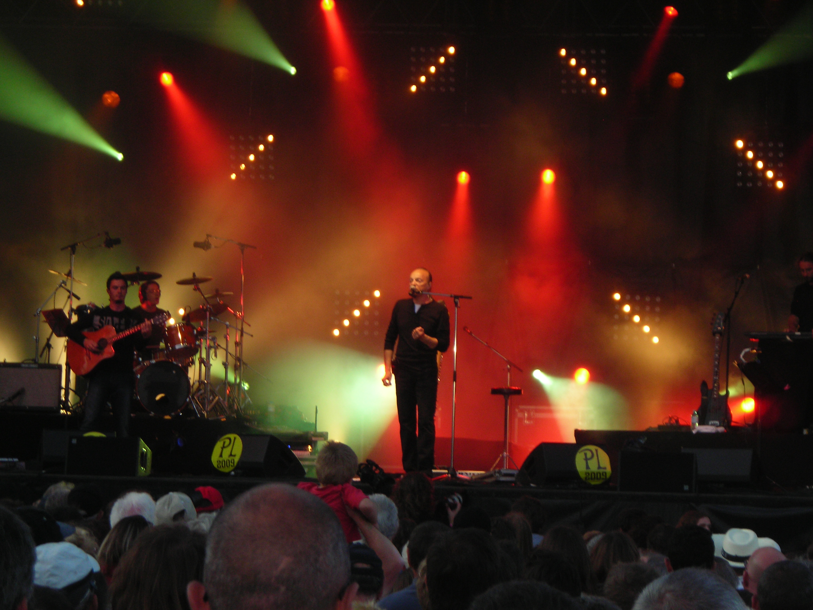 Alan Stivell at Paimpol's festival